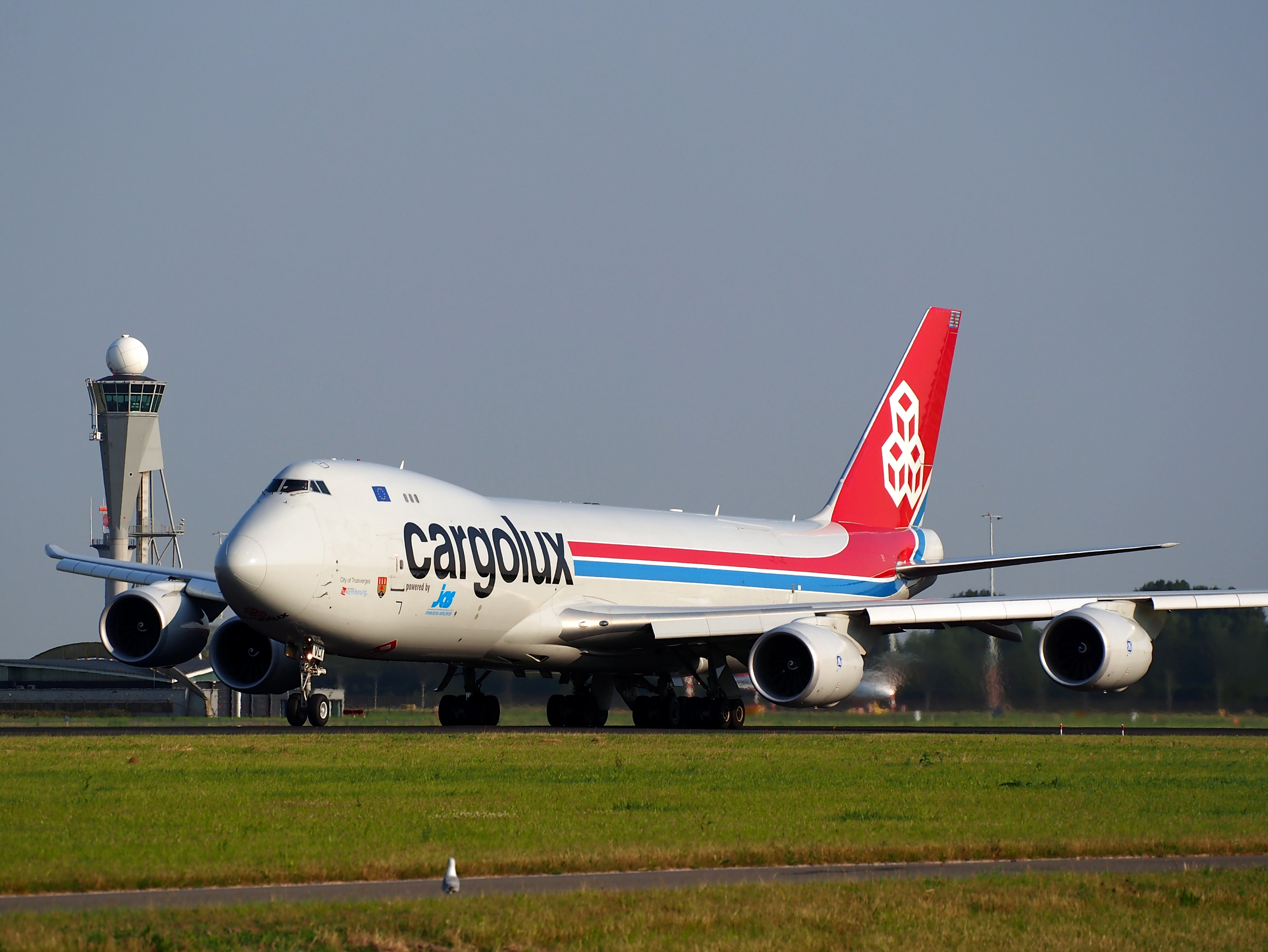 Photographed at Schiphol, Amsterdam Airport.